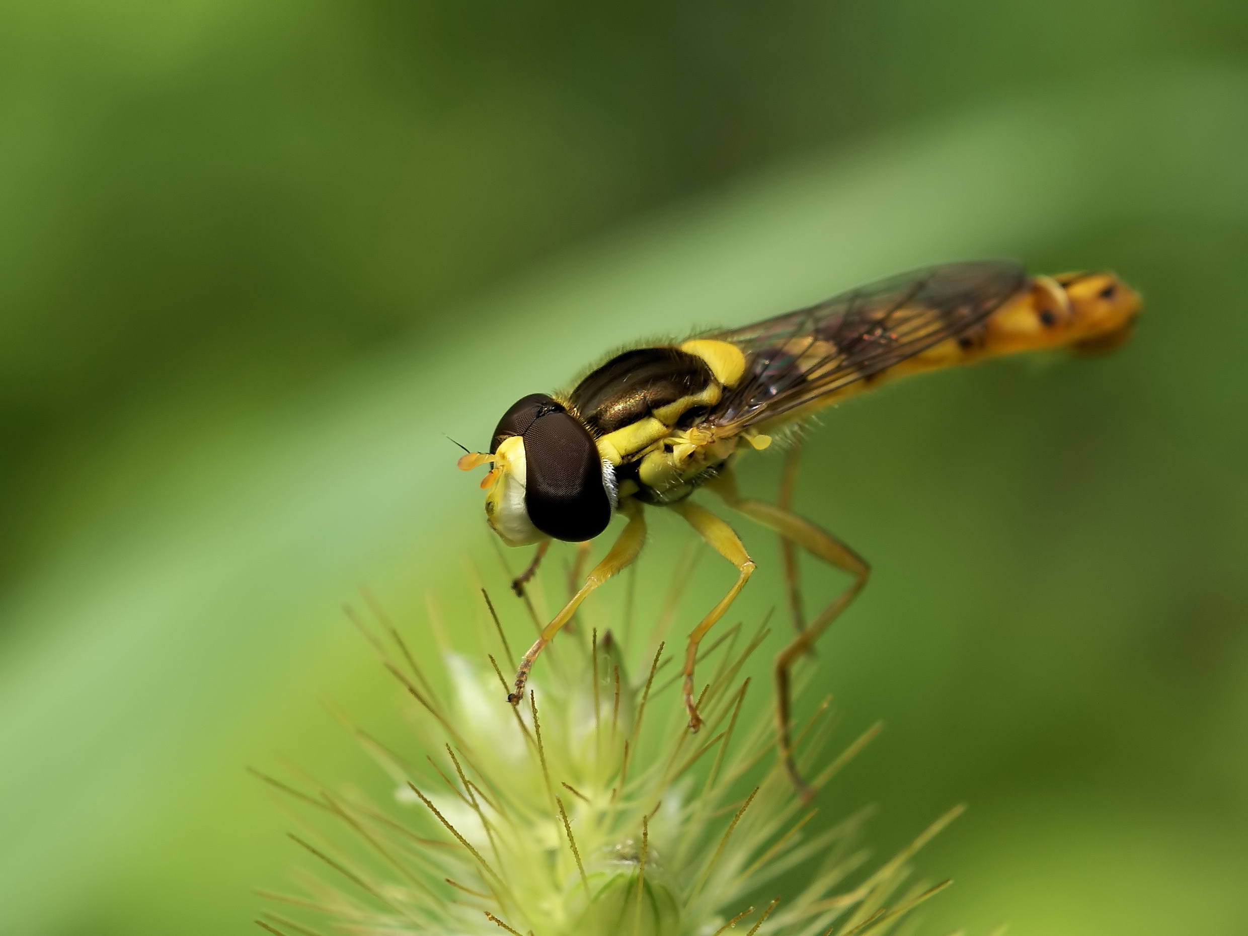 Male hoverfly in Lanquais (Dordogne, Aquitaine, France).